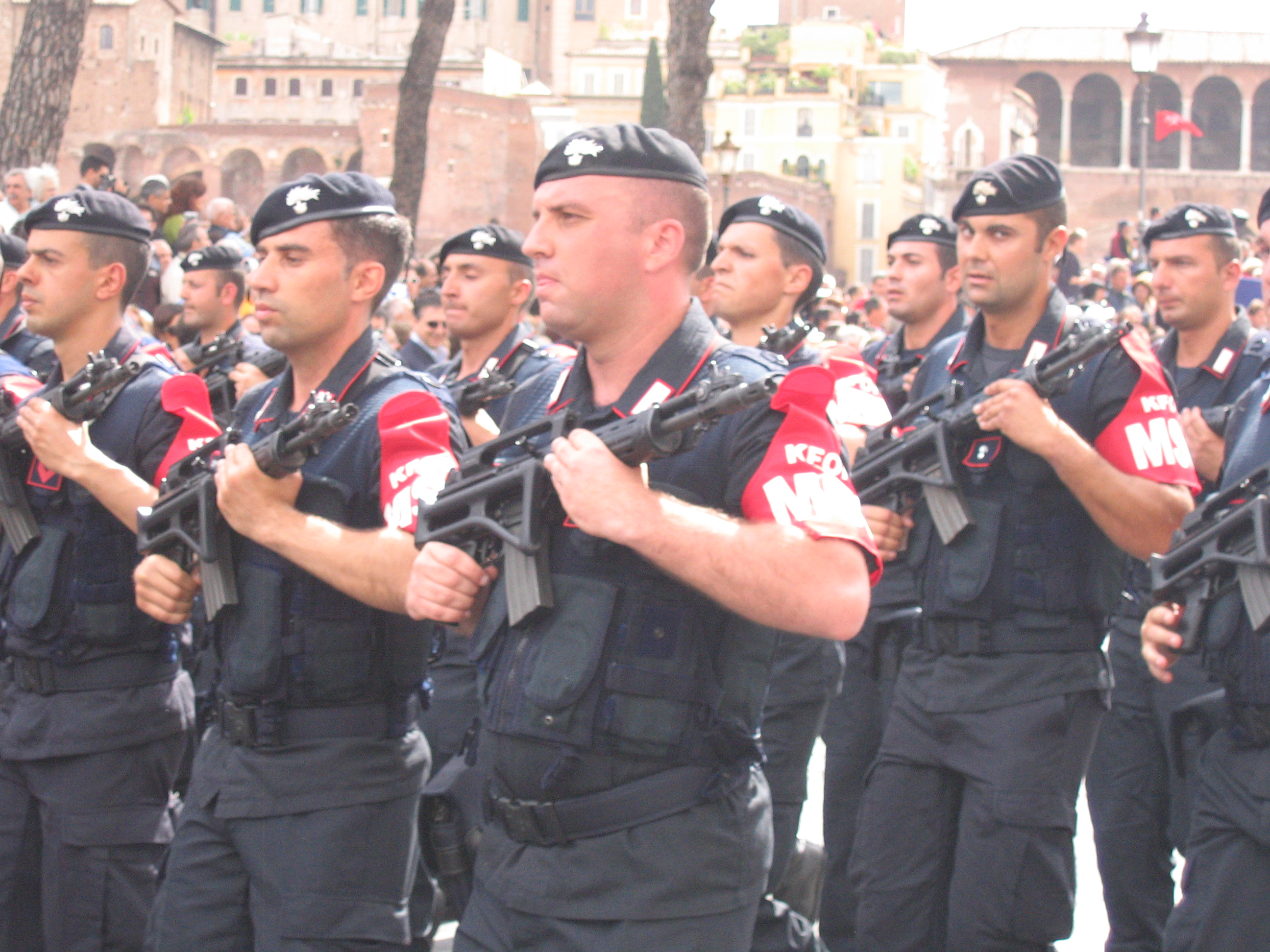 Carabinieri team for mission abroad (MSU).